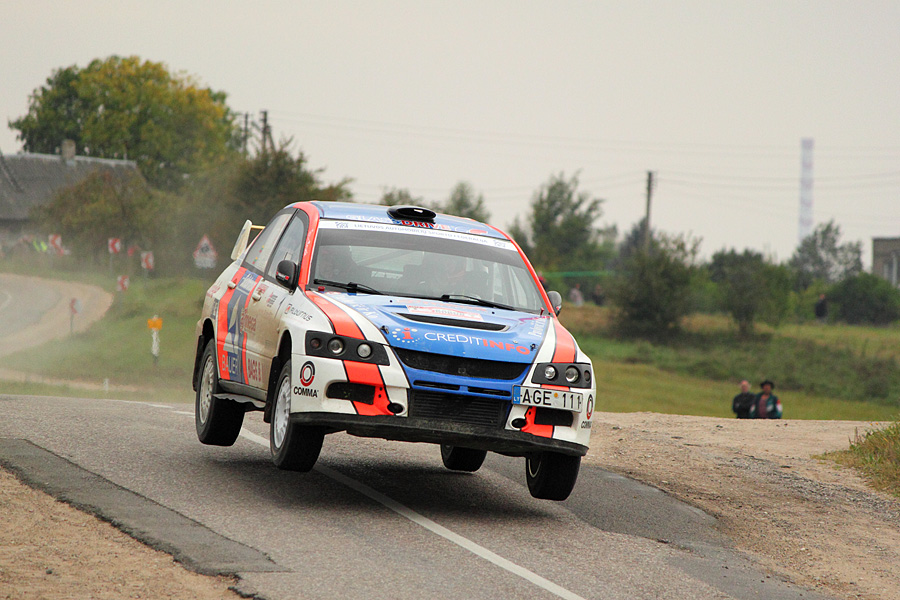 Rally driver Ramūnas Čapkauskas, Mitsubishi Lancer Evolution IX